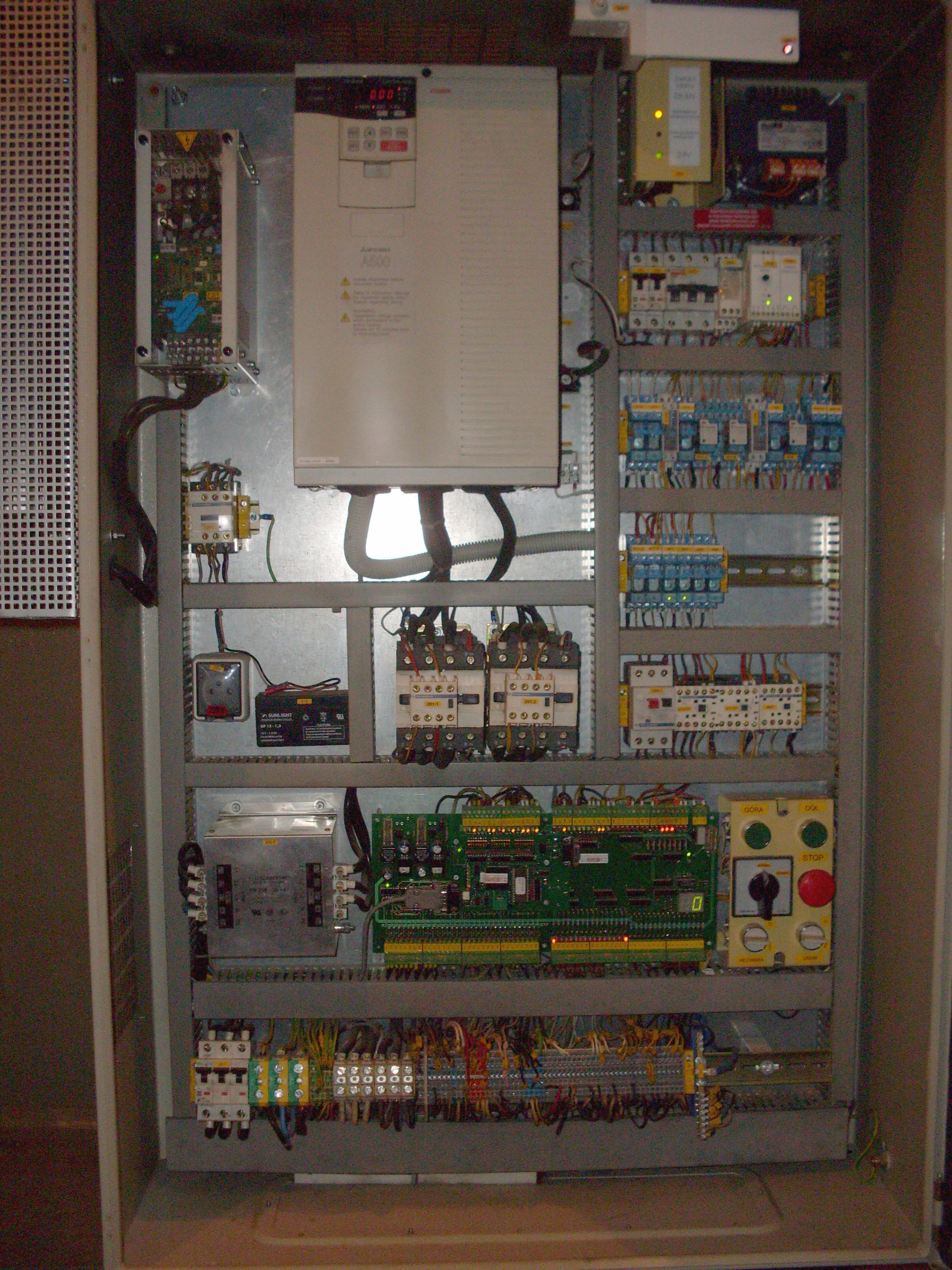 Elevator control centre. Logic scheme: 1)doors must open immideately if small mechanic resistance is detected; 2)cabin can't move, while doors are opened; 3)doors might be opened only if cabin is stopped perfectly on floor's level 4)cabin must be blocked, if doors are opened somewhere (except for servicing by specialists, when access to unauthorized persons is limited)